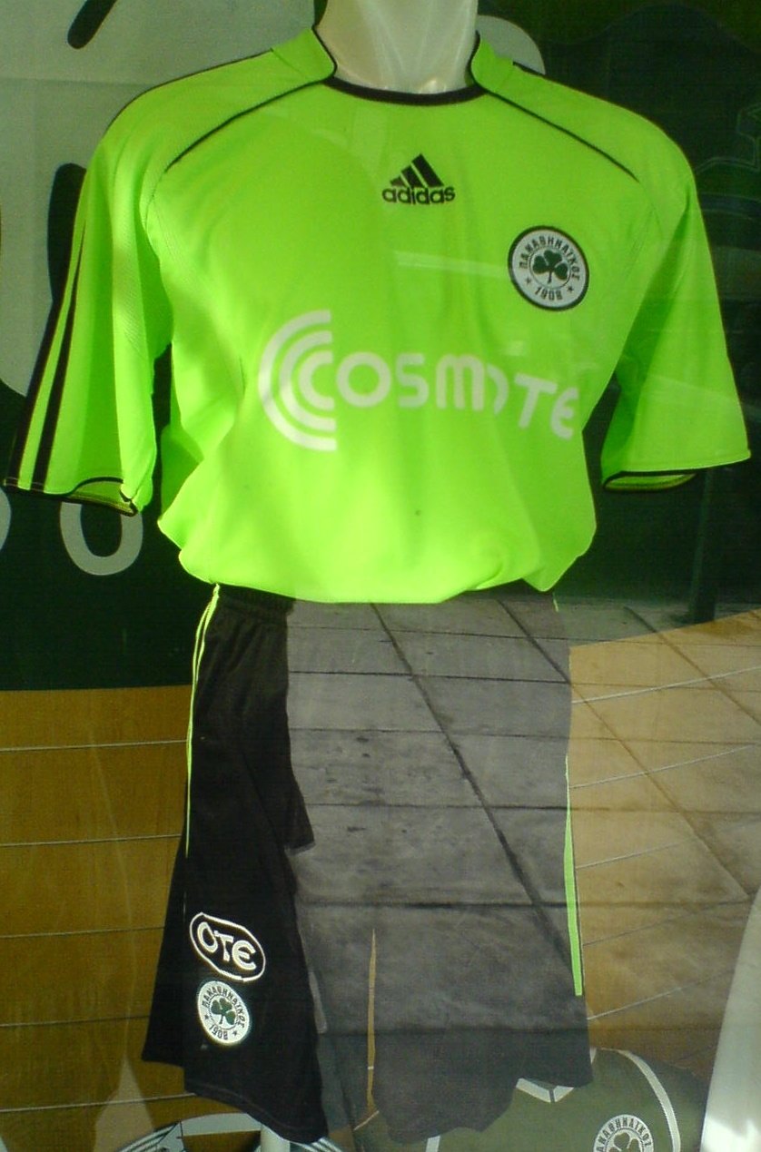 Panathinaikos 3rd colours